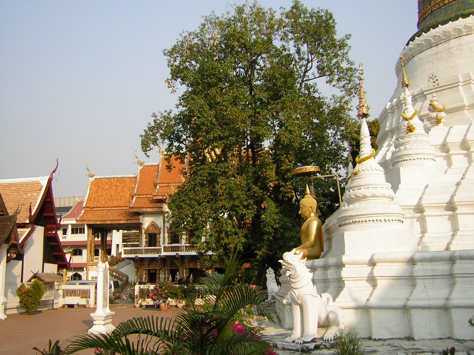 A view of the garden of Wat Buppharam, Chiang Mai, Thailand. To the right, the base of the Chedi, guarded by Chinthei lions. The great Viharn in the background.